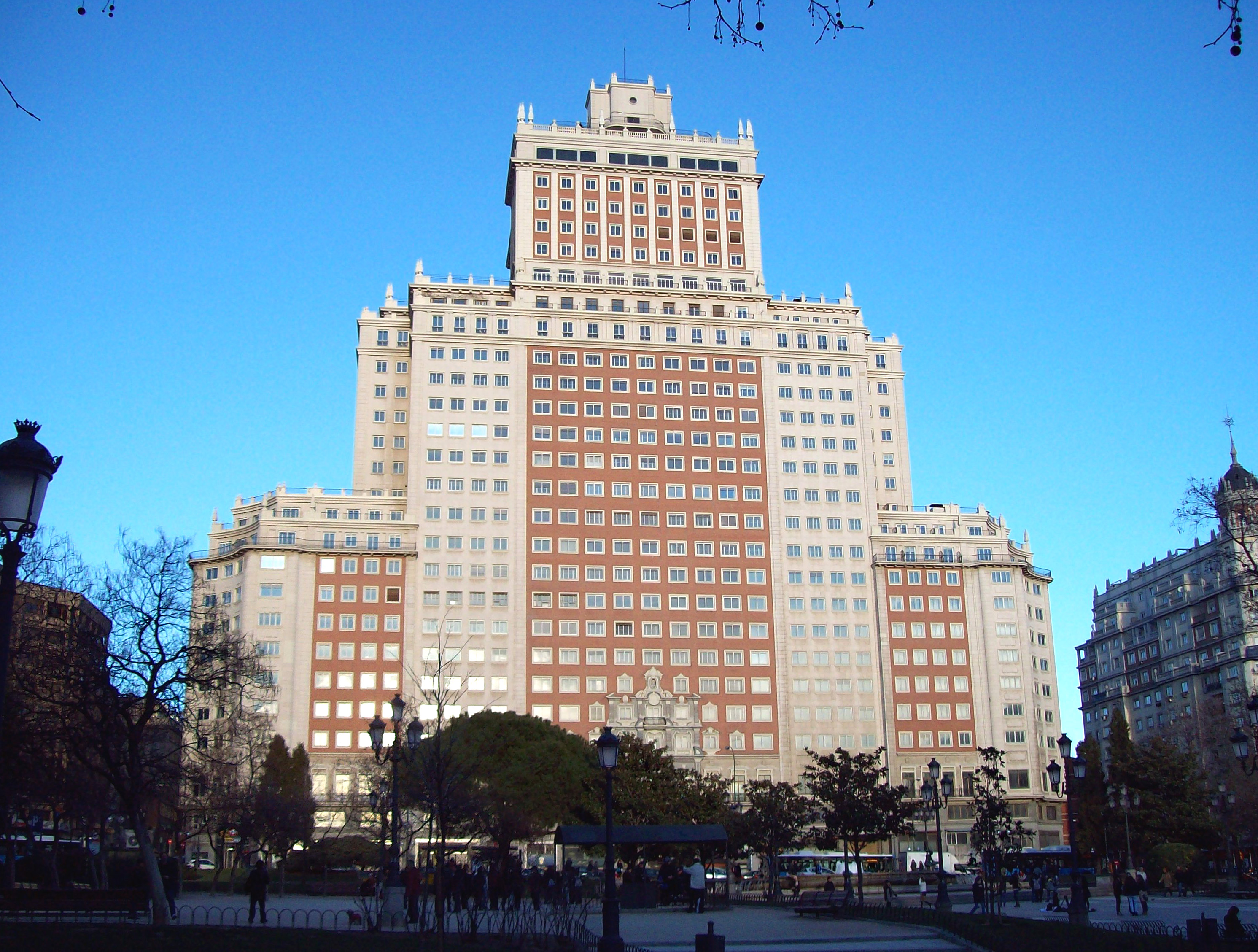 View of the south-west façade of Edificio España from Plaza de España (square) in Madrid (Spain).